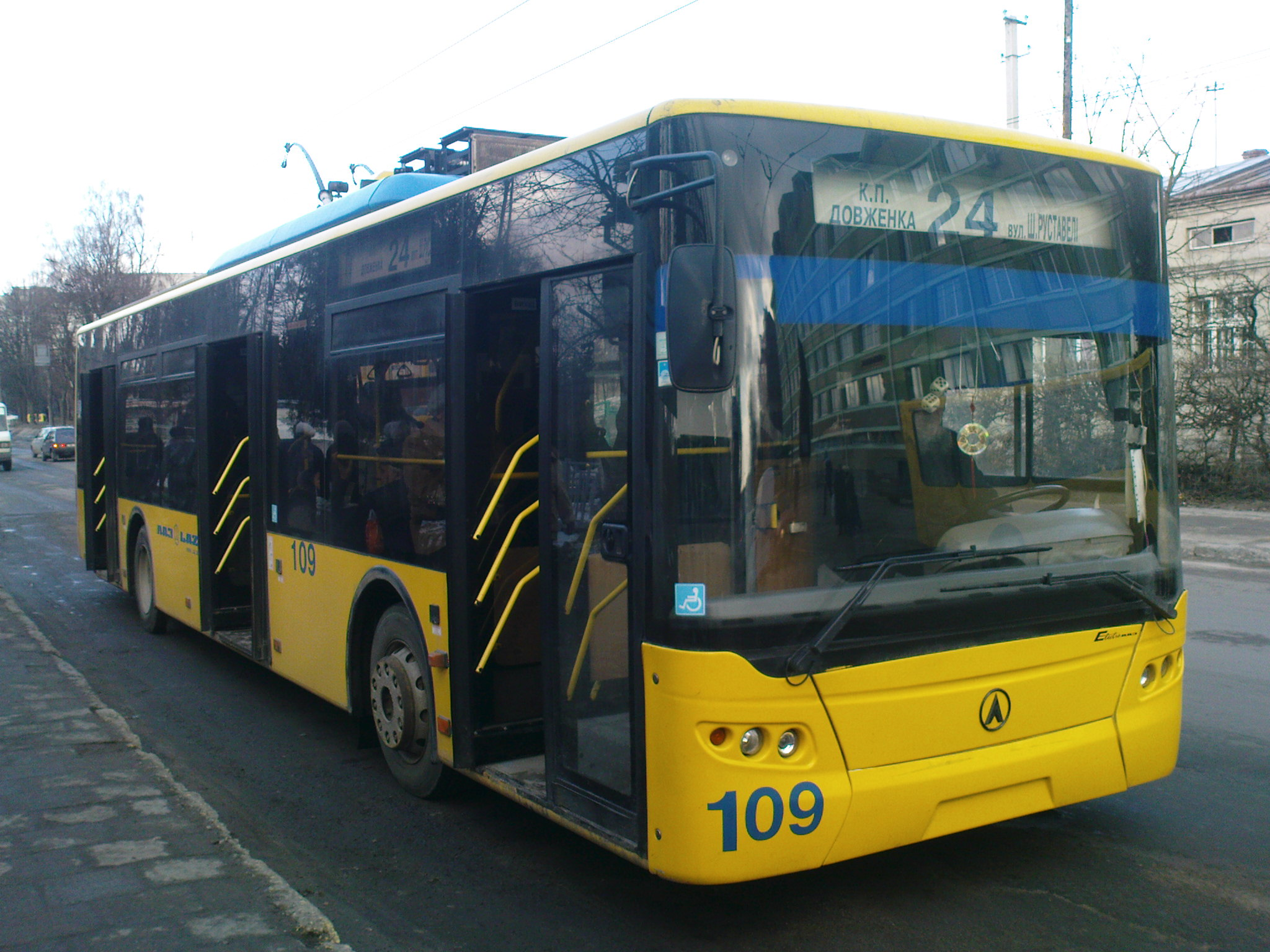 LAZ E183 in a bus stop